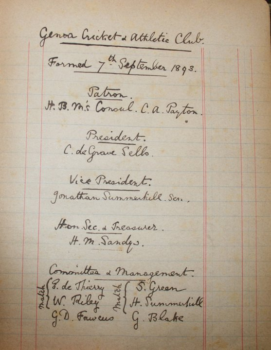 Act of foundation of Genoa CFC, 7 september 1893 at Museo della storia del Genoa in Genoa, Italy